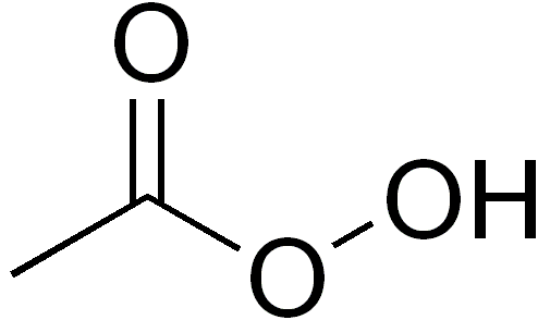 chemical structure of peracetic acid